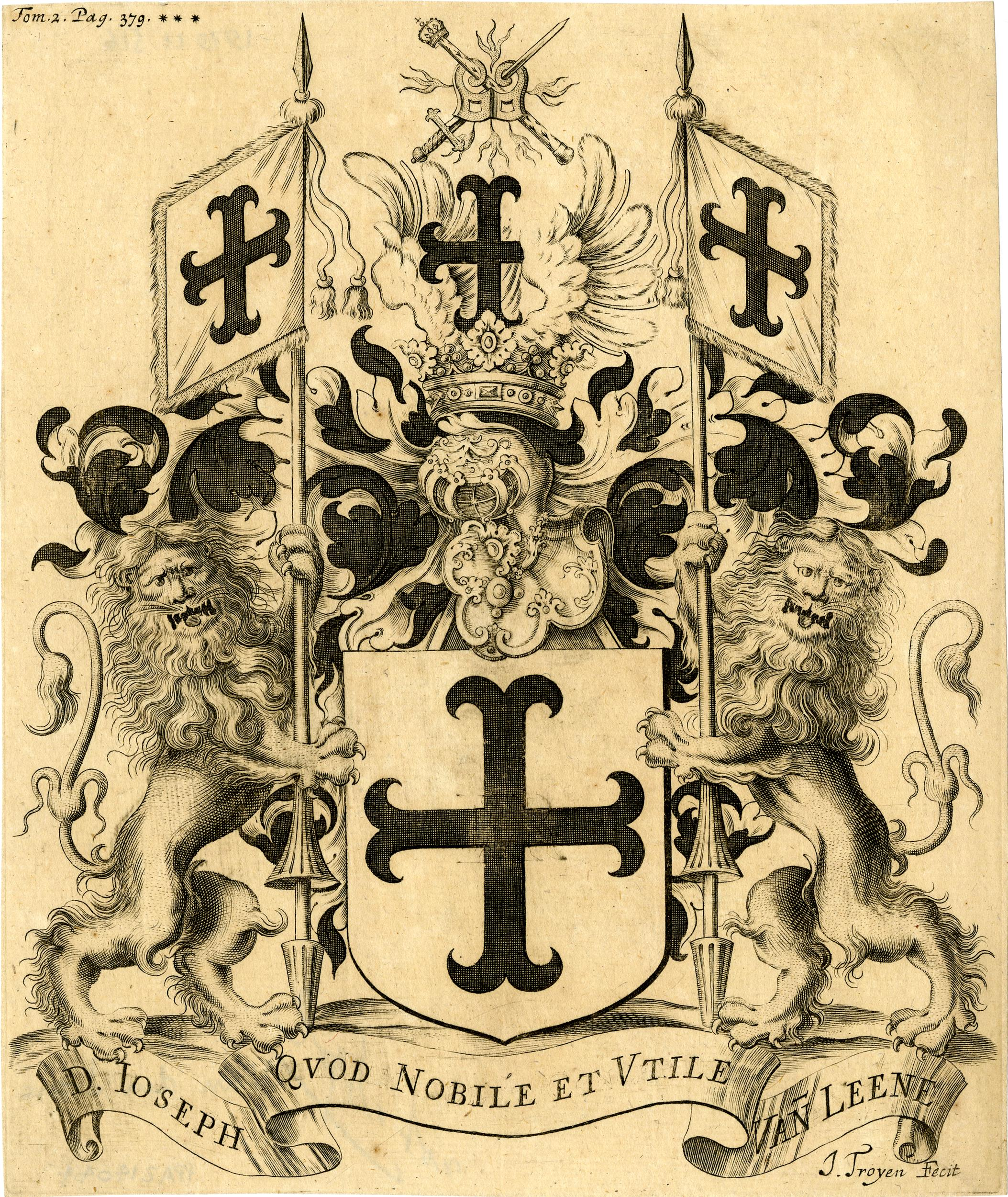 Print of the coat of arms of Joseph van den Leene by Jan van Troyen